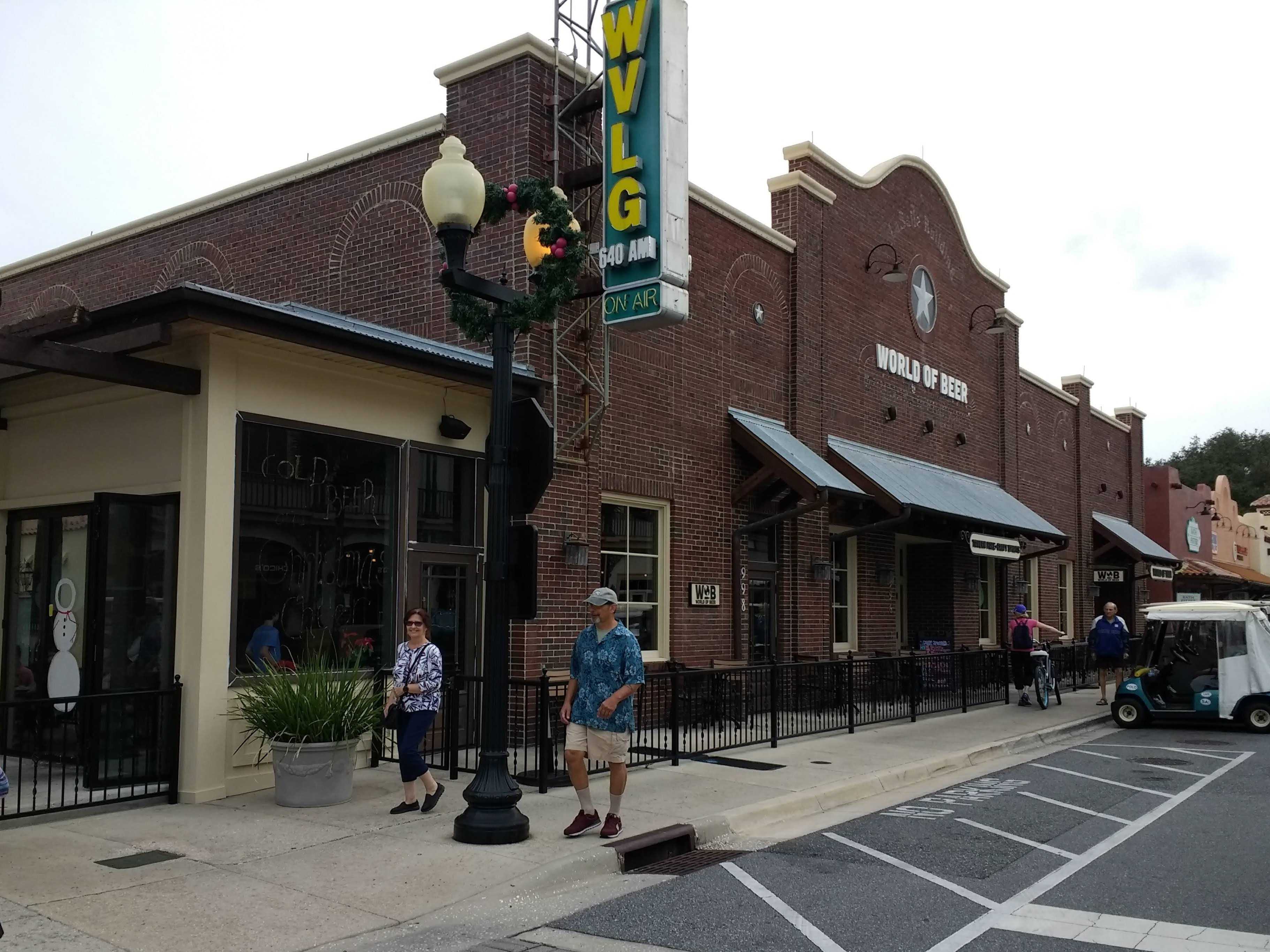 The WVLG Studio in in the Spanish Springs Square of the Villages, Florida.